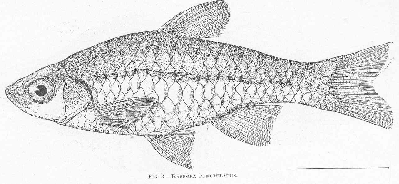 Rasbora punctulatus Subject: Rasbora Tag: Fish